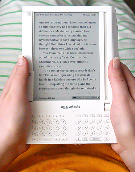 Amazon Kindle e-book reader being held by my girlfriend. The color and scale of the device are accurate.